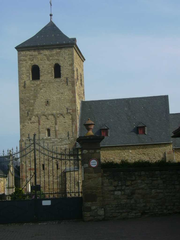 Wollersheim (Nideggen) alte Kirche own work papa1234 2006-09-16